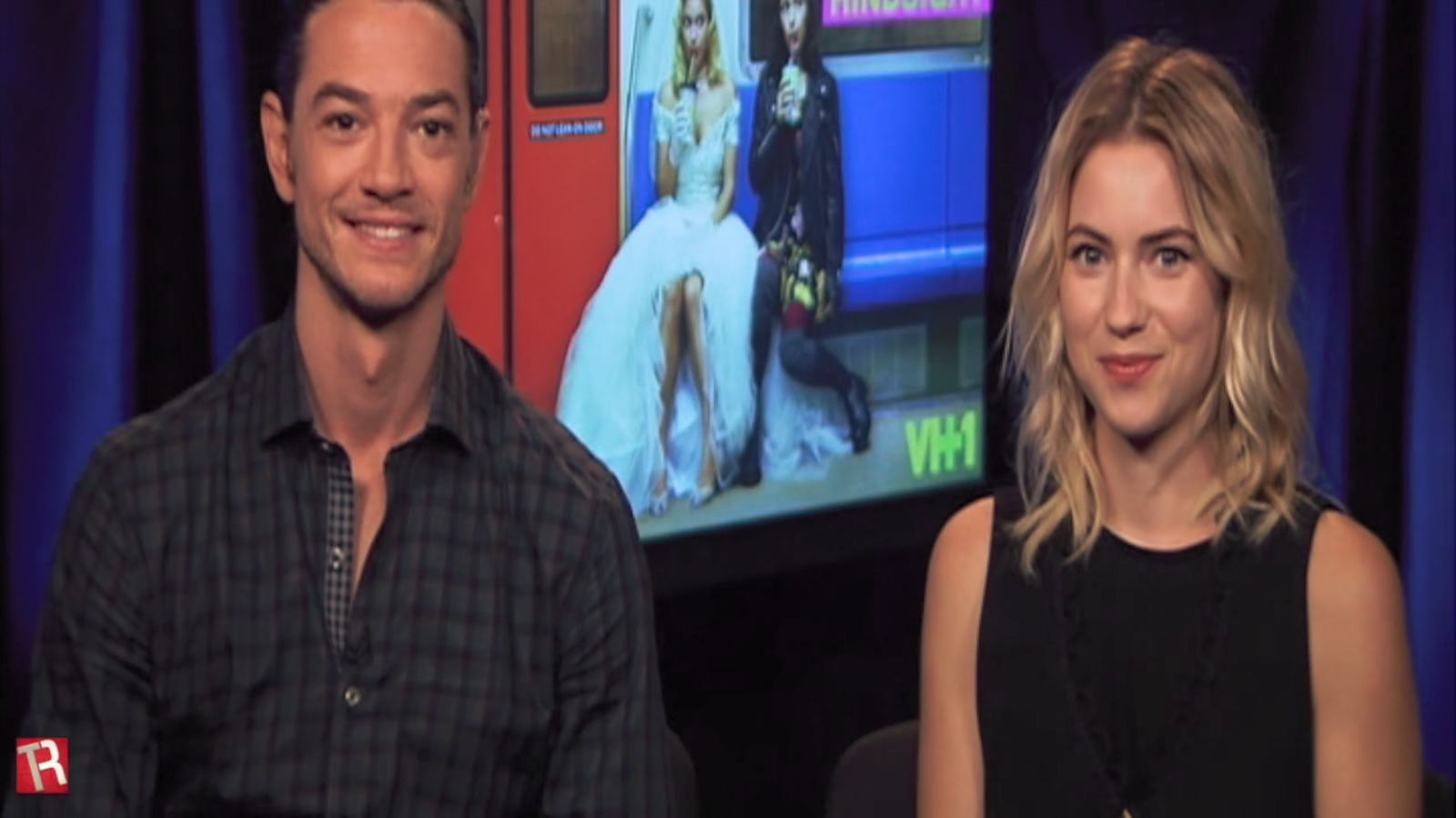 Actors Laura Ramsey and Craig Horner discuss the 1990s and their Hindsight (TV series) with the Trending Report